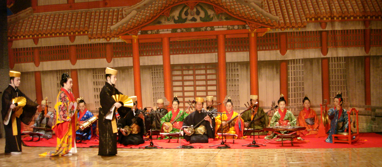 On 2008-01-30,I took this foto at Shinagawa,Tokyo."Uzagaku" or royal-sitting-music was the court music of old Ryukyu Kingdom(Okinawa Prefecture,today).In this photo,the Uzagaku band is in collaboration with Rukyu traditional dancers team.